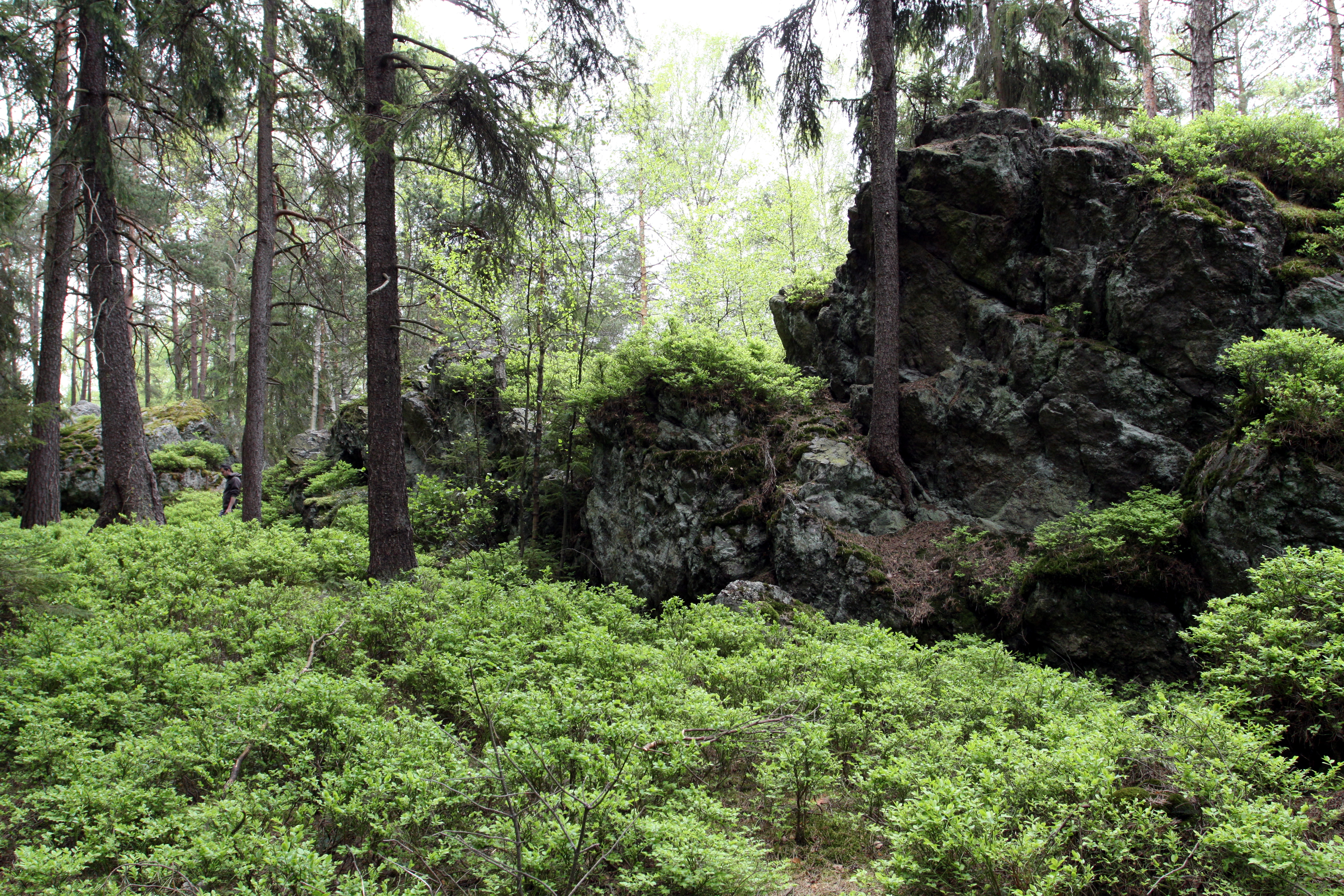 Natural monument Goethova skalka in Cheb District, Czech Republic